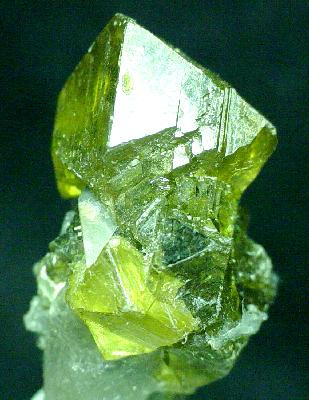 Sphalerite Locality: Balmat-Edwards Zinc District, St Lawrence County, New York, USA (Locality at ) Another first class thumb, this one a GEM yellow sphalerite from New York. Such pieces are extremely rare and this is one of the best of any size that I have seen or know of from this zinc mine. It is nearly pristine, is gemmy all through, and has a bright color that is easily seen without any backlighting at all, just like yellow glass! Thumbnail, 2.75 x 1.75 x 1.5 cm